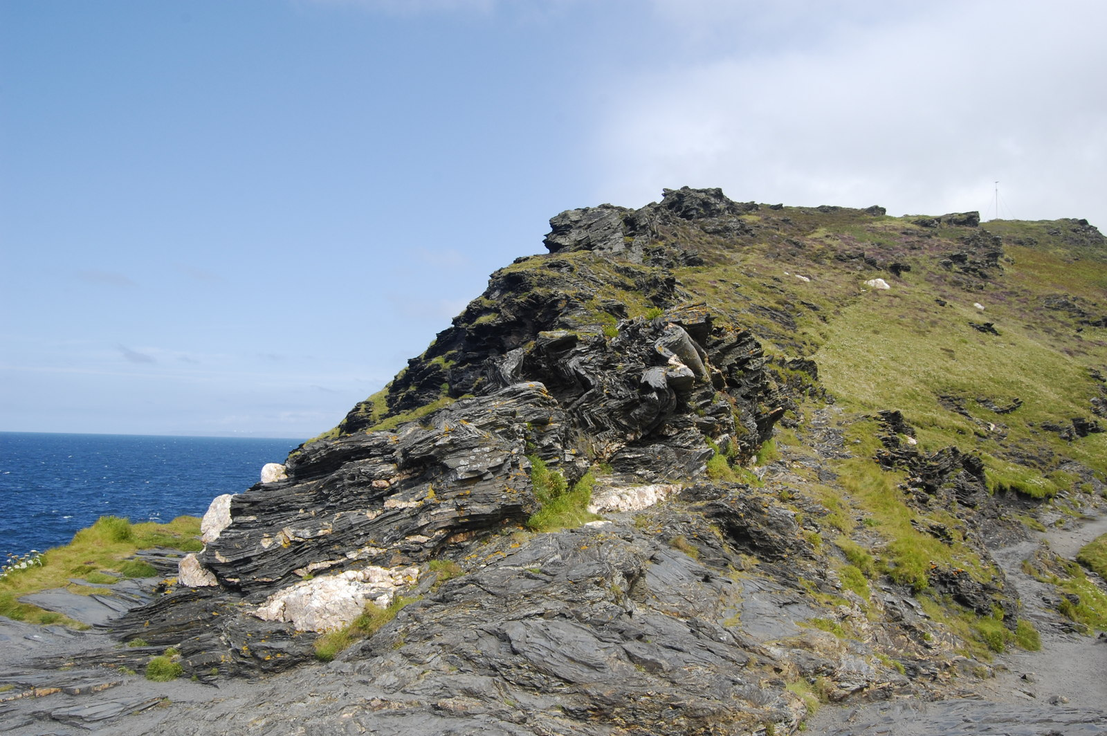 Folded slate with white quartzite boulders at Penally Point near Boscastle in Cornwall, England.